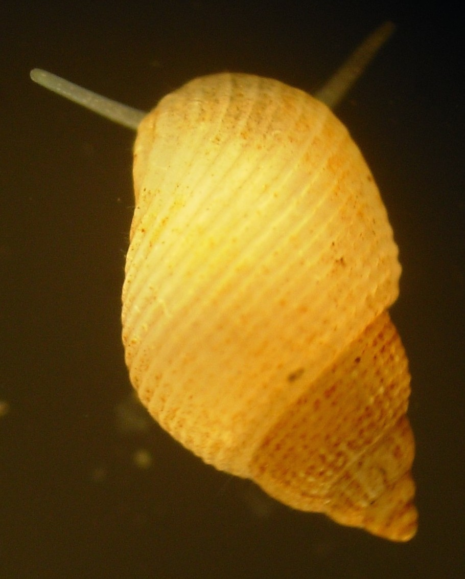 Alvania lactea creeping.